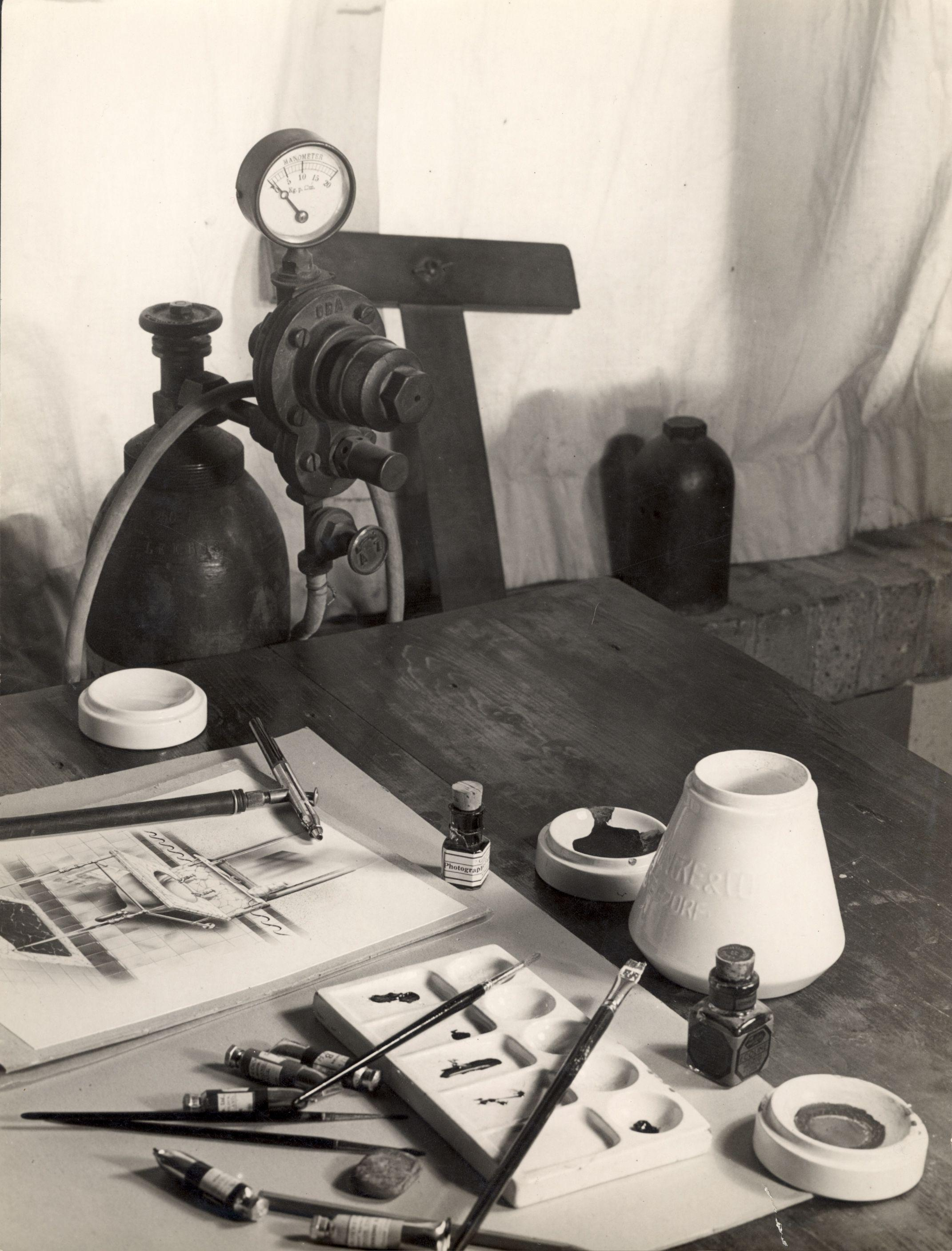 Set of retouching tools for manipulating photographs (retouching ink, retouching paint, airbrush, etcetera).